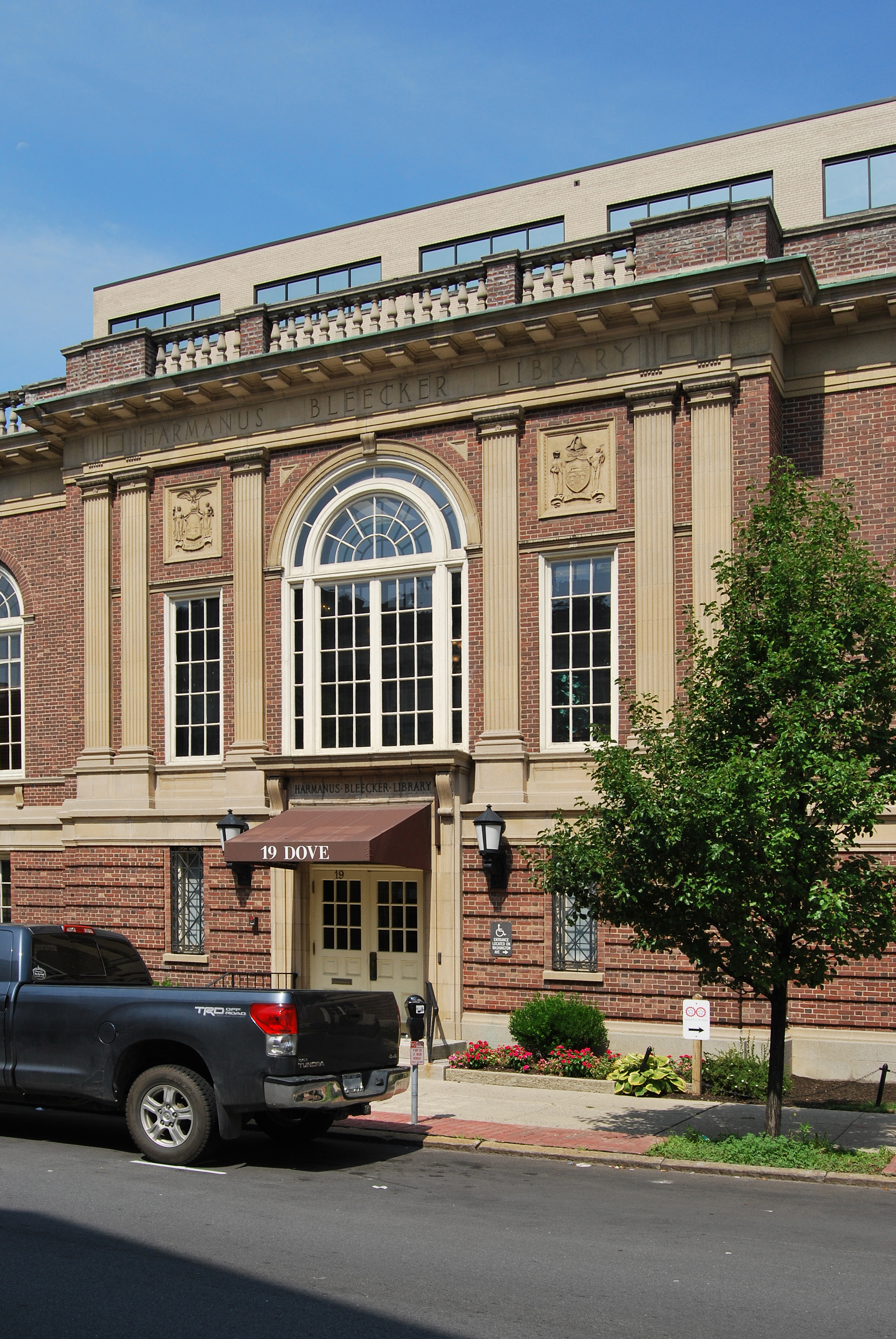 Harmanus Bleecker Library, no private apartments, in Albany, New York